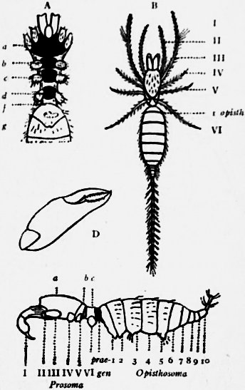 Koenenia mirabilis, Grassi, one of the Palpigradi. A, Ventral view of prosoma and anterior region of opisthosoma with the appendages cut off near the base; a and b, prosternites; c, mesosternite; and d, metasternite of the prosoma; f, ventral surface of the prae-genital somite; g, sternite of the genital somite (first opisthosomatic somite). B, Dorsal view. I to VI, prosomatic appendages; 1 opisth, genital somite (first opisthosomatic somite). C, Lateral view, I to VI, prosomatic appendages; a, b, c, the three tergal plates of the prosoma; prae-gen, the prae-genital somite; 1 to 10, the ten somites of the opisthosoma. D, Chelicera.(Original drawing by Pocock and Pickard-Cambridge, after Hansen and Sörensen.)